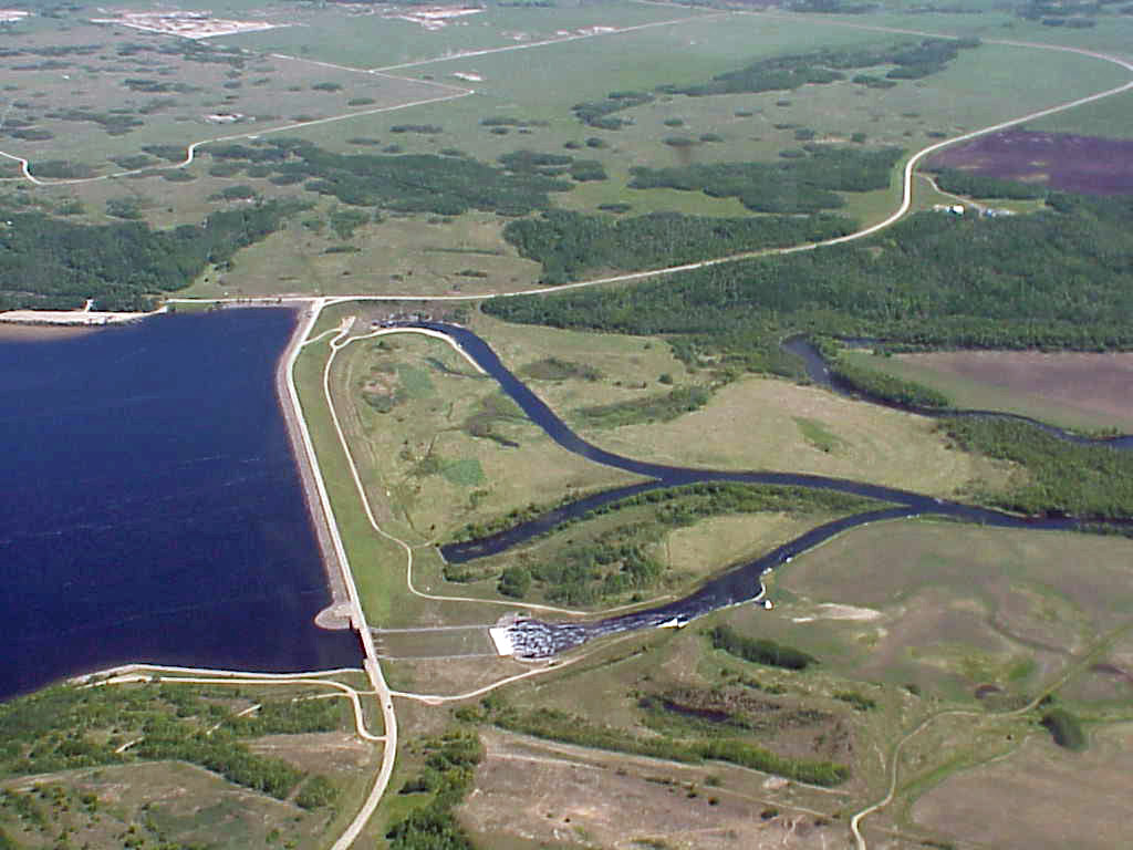 Shellmouth Dam